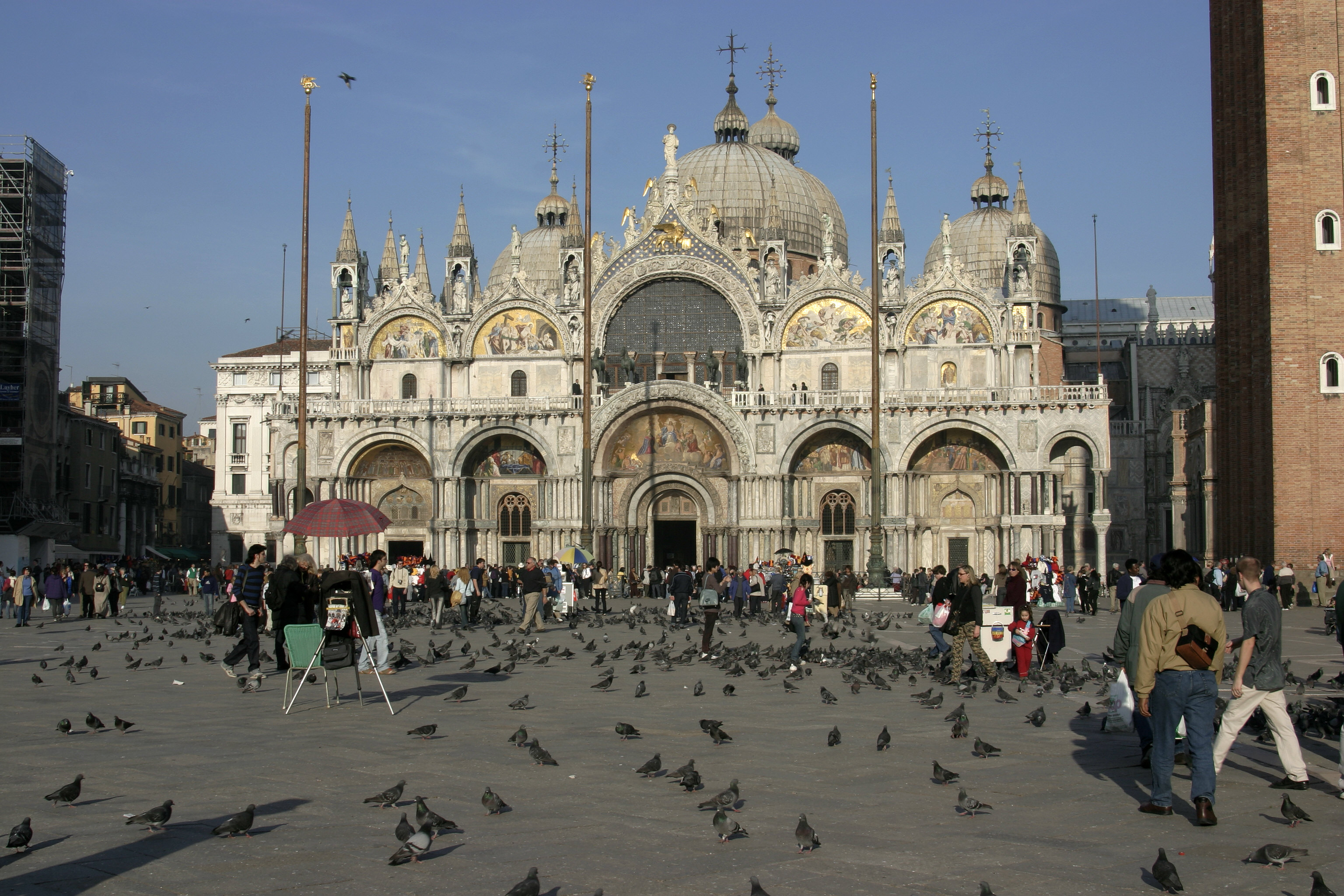 Venice - St. Marc's Basilica